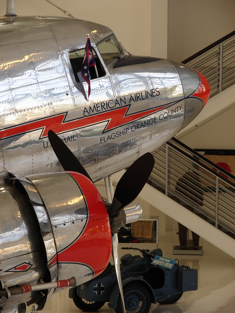 Proudly on display at the Lyon Air Museum. KSNA/SNA.